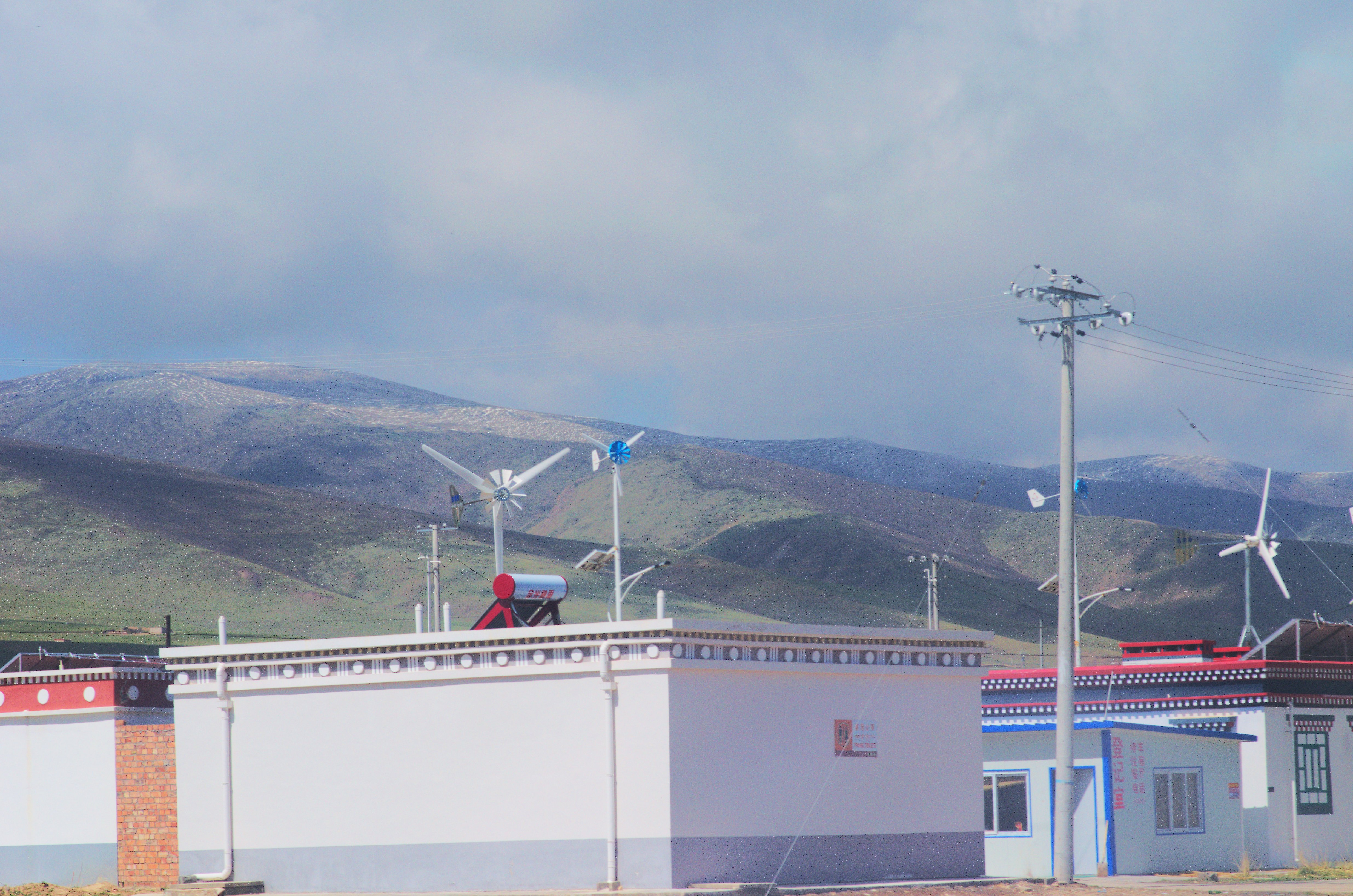 Small Tibetan Zang hamlet at Qinghai Lake (or kokonor in mongol) South-East, using solar water heating and double rotor wind turbines, and photovoltaics panels.